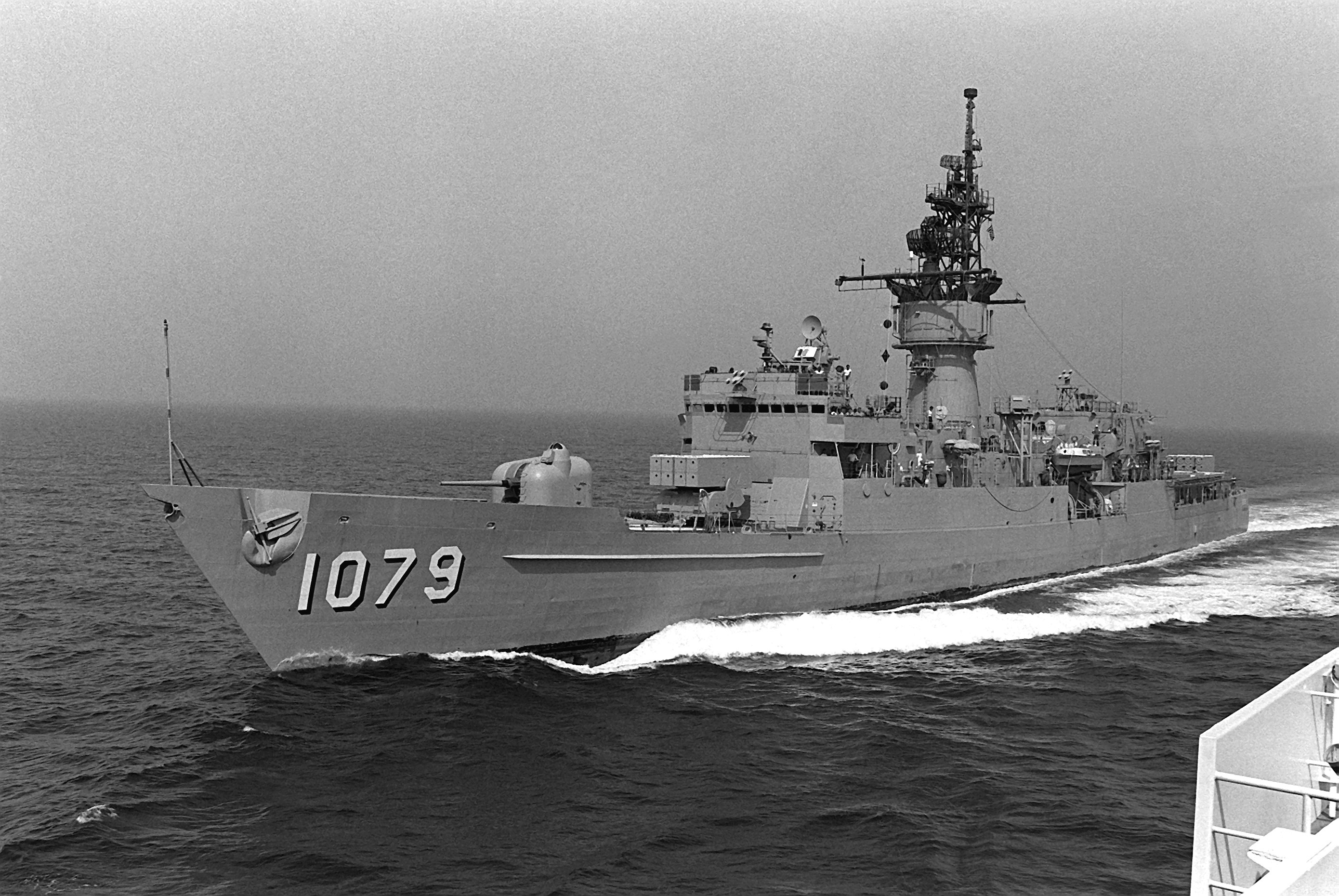 Port bow view of the Knox Class frigate USS BOWEN (FF-1079) underway.